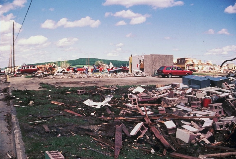 Damage from F5 Barneveld, Wisconsin tornado of June 7, 1984.